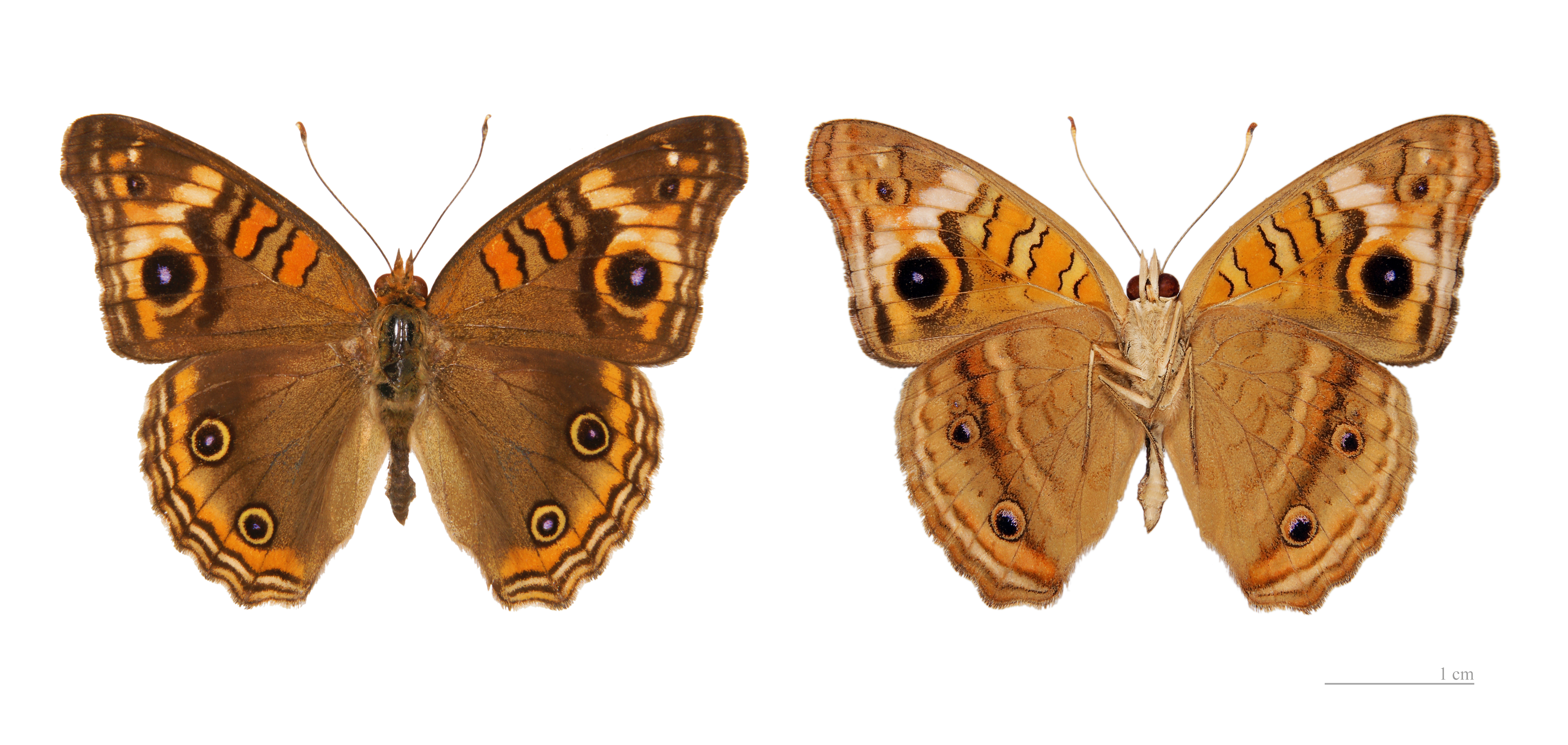 West Indian Buckeye ♂ - Two views of same specimen Locality : Kaw Road, Waterfalls Fourgassié. French Guiana.